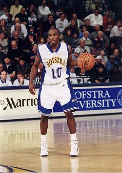 Speedy Claxton, of the Hofstra University Flying Dutchmen Men's Basketball team, dribbles the ball during a game at the Physical Fitness Center.